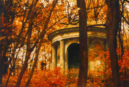 Temple of Pan at Désert de Retz with color shift using Kodak Ektachrome Infrared film